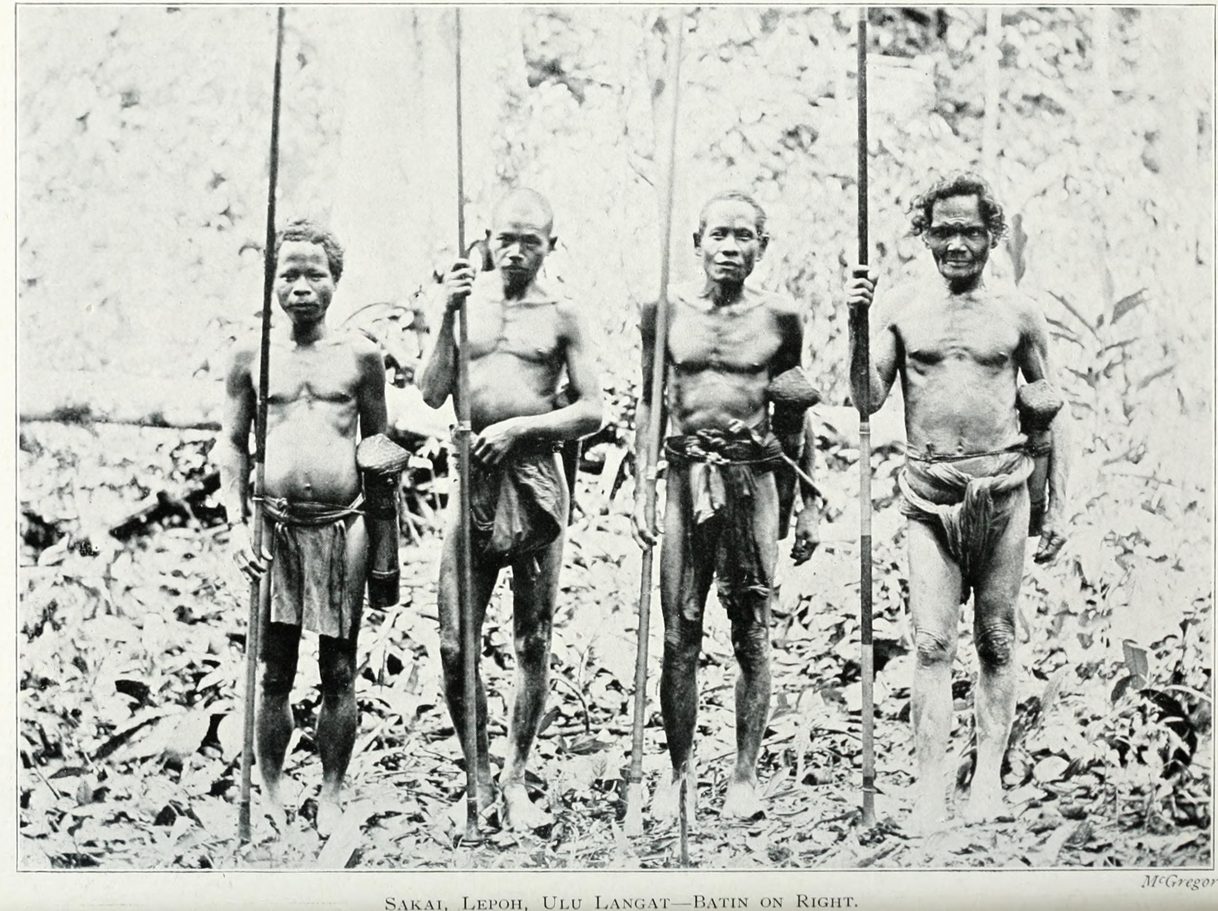 Title: Pagan races of the Malay Peninsula Year: 1906 (1900s) Authors: Skeat, Walter William, 1866- Blagden, Charles Otto, 1864-1949 Subjects: Ethnology -- Malay Peninsula Malays (Asian people) Malay Peninsula -- Social life and customs Malay Peninsula -- Religion Malay Peninsula -- Aboriginal dialects Publisher: London : Macmillan and Co., limited (etc., etc.) Text Appearing Before Image: ' Text Appearing After Image: '